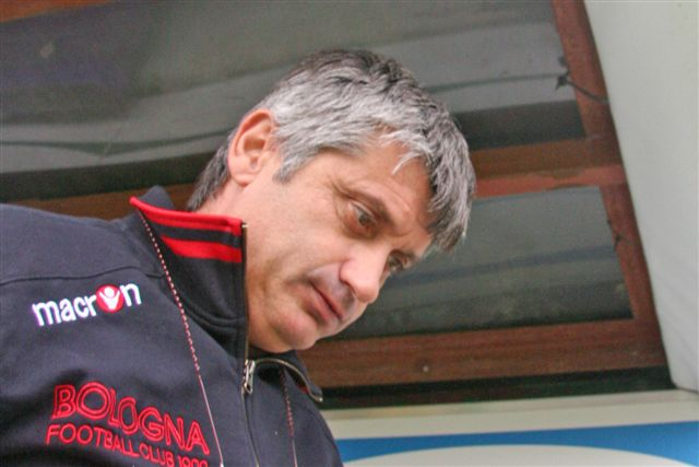 Bologna F.C.'s coach Daniele Arrigoni.